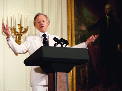 Author Tom Wolfe participates in the White House Salute to American Authors hosted by Laura Bush in the East Room Monday, March 22, 2004.